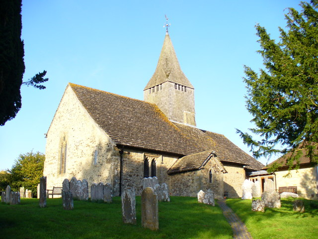 West Chiltington Church Ancient parish church, famous for its medieval wall paintings.